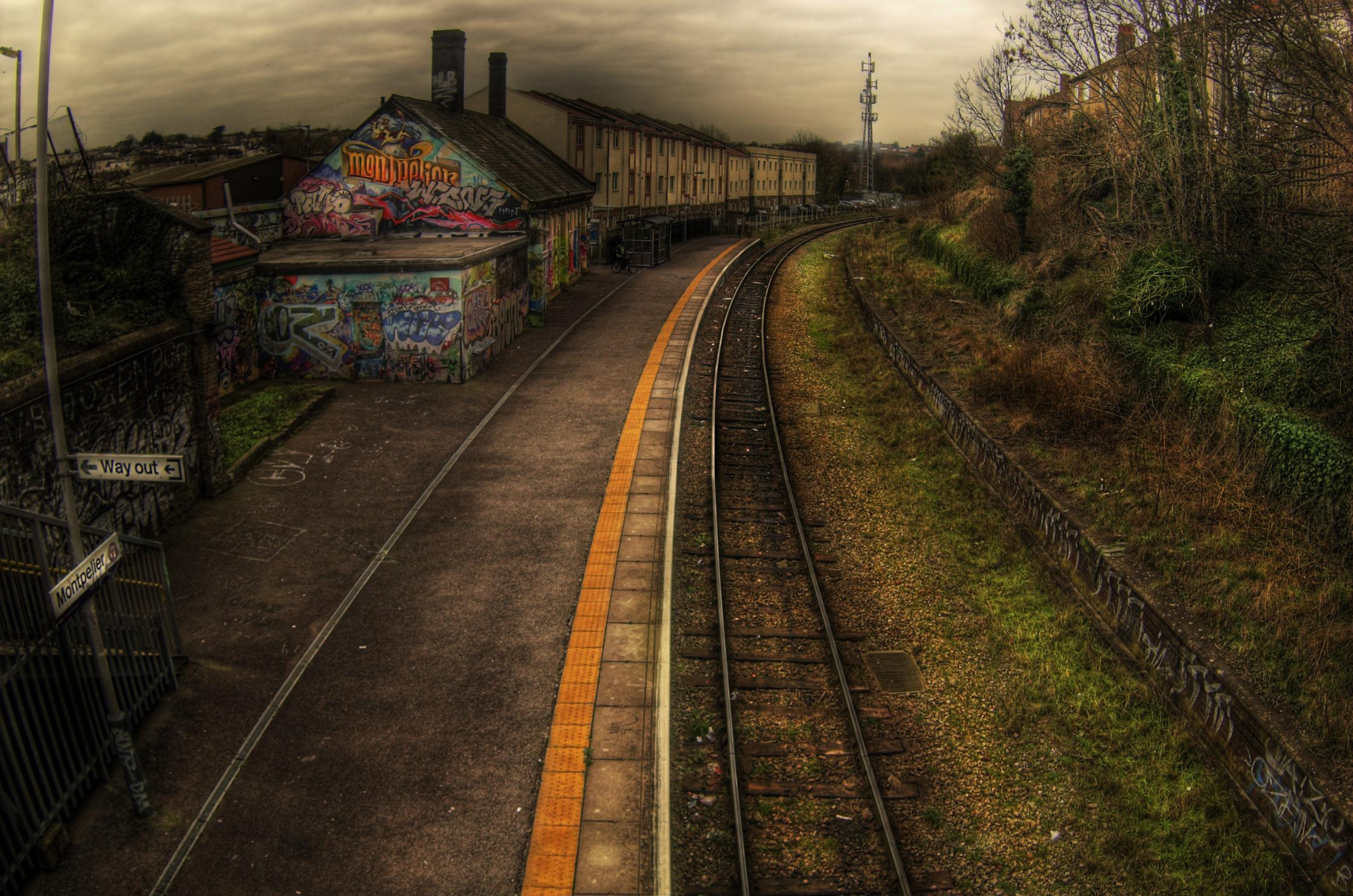 HDR fisheye image of Montpelier railway station, Bristol. This is looking west from the footbridge.